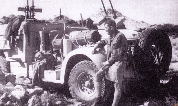 A T1 Patrol Chevrolet of the Long Range Desert Group during the withdrawel from Operation Caravan; attack on Barce, September 1942.